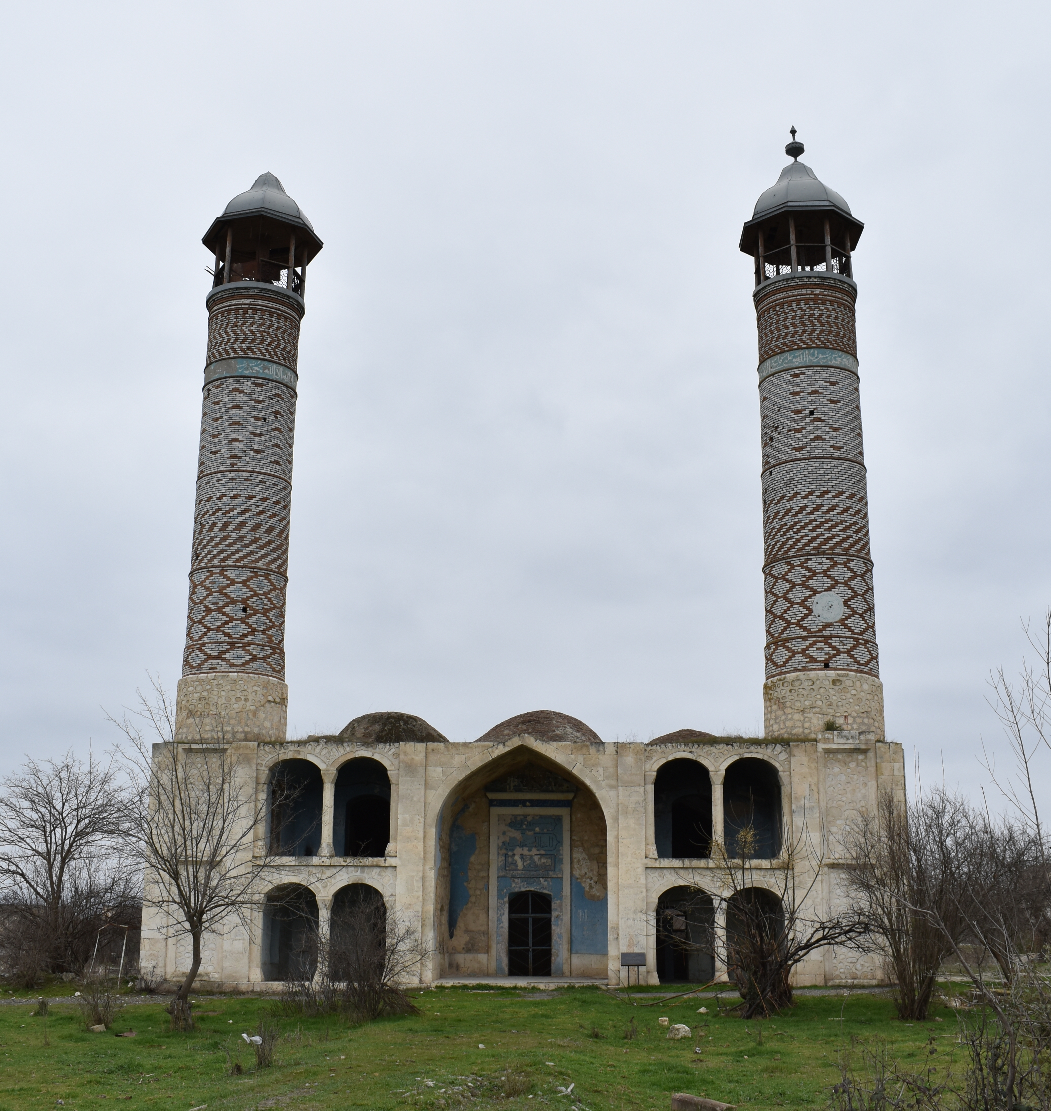 Agdam Mosque